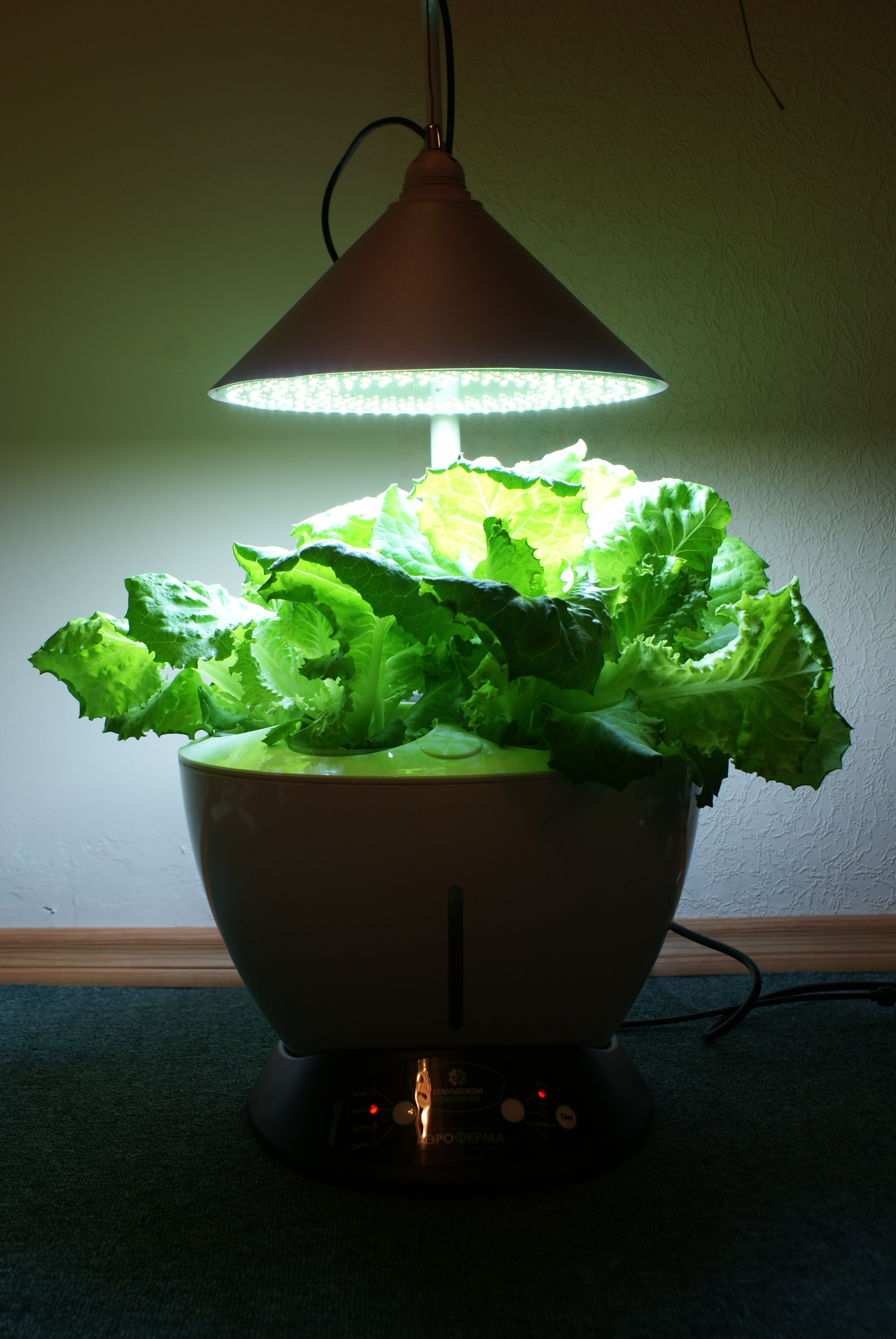 Aeroponics. Hydroponic. CityFarmer. Salad. Aerofarm.